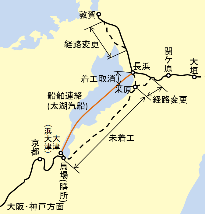 Railway route map between Kyoto - Baba (later Zeze) and Tsuruga - Ogaki in the time of construction. Dashed lines represent modified sections from Boyle's proposal and a section which was not in construction at the time of completion of Tsuruga - Ogaki section. Baba - Nagahama section was connected by ships on Lake Biwako.